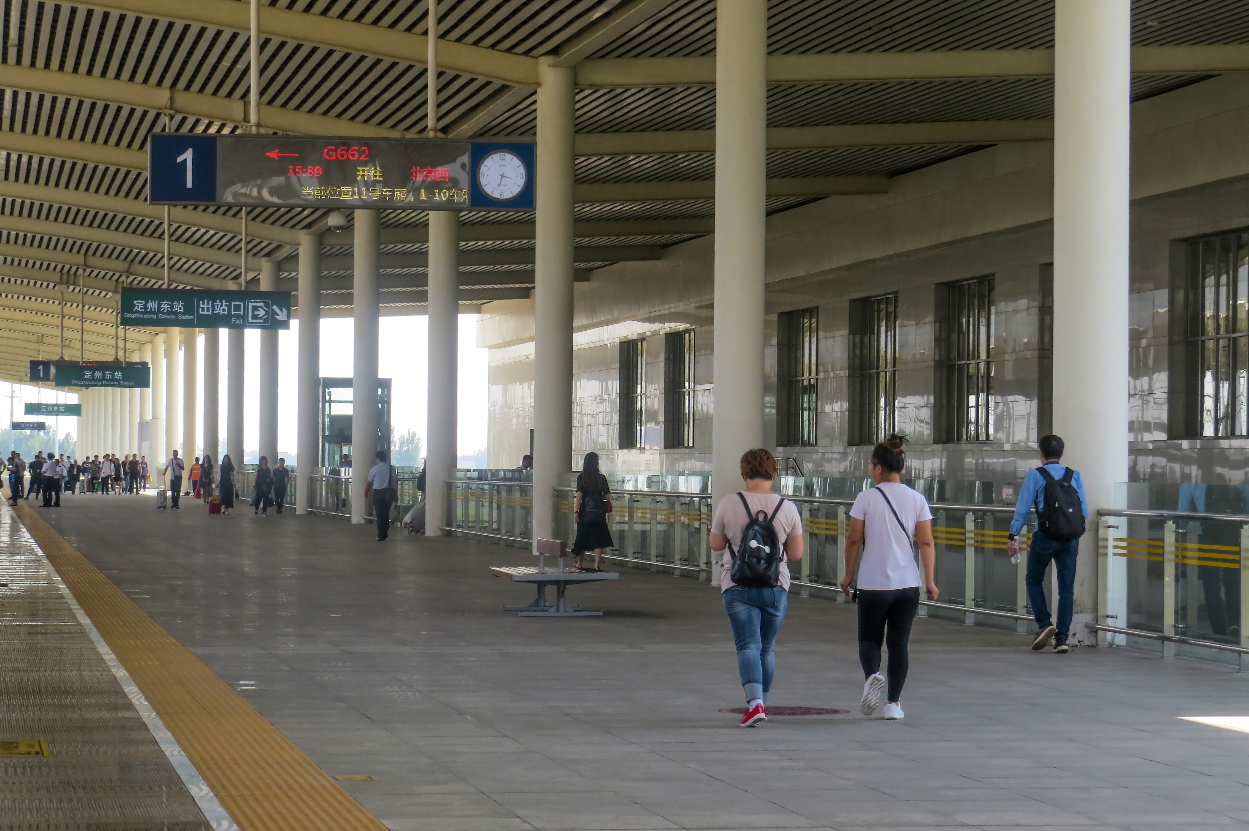 Taken during the stopover of G662. The next thing is a nap, no more than that.